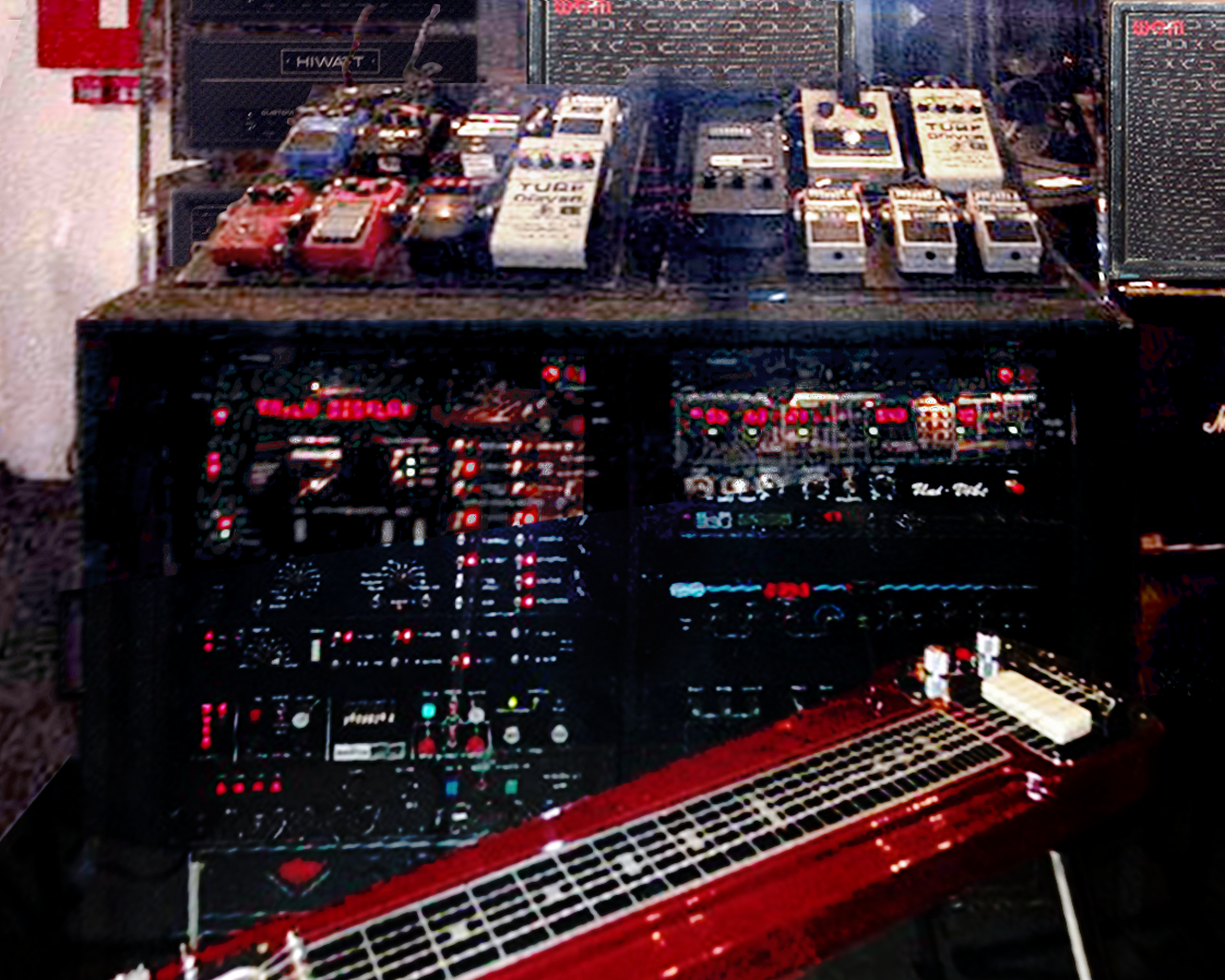 Read the story at .